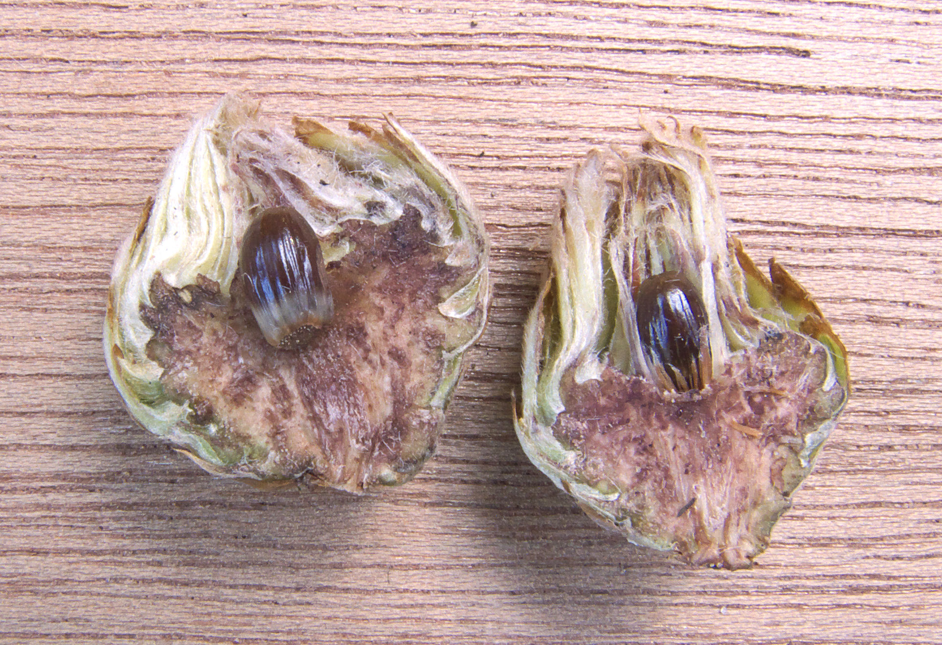 Andricus foecundatrix on Quercus robur